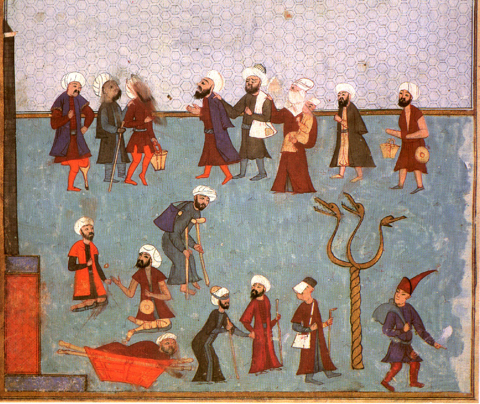 Image of a procession of beggars in the Hippodrome of Constantinople. Ottoman miniature from the Surname-i Vehbi, kept at the Topkapı Sarayı Müzesi, Istanbul (Hazine 1344, folios 290a)